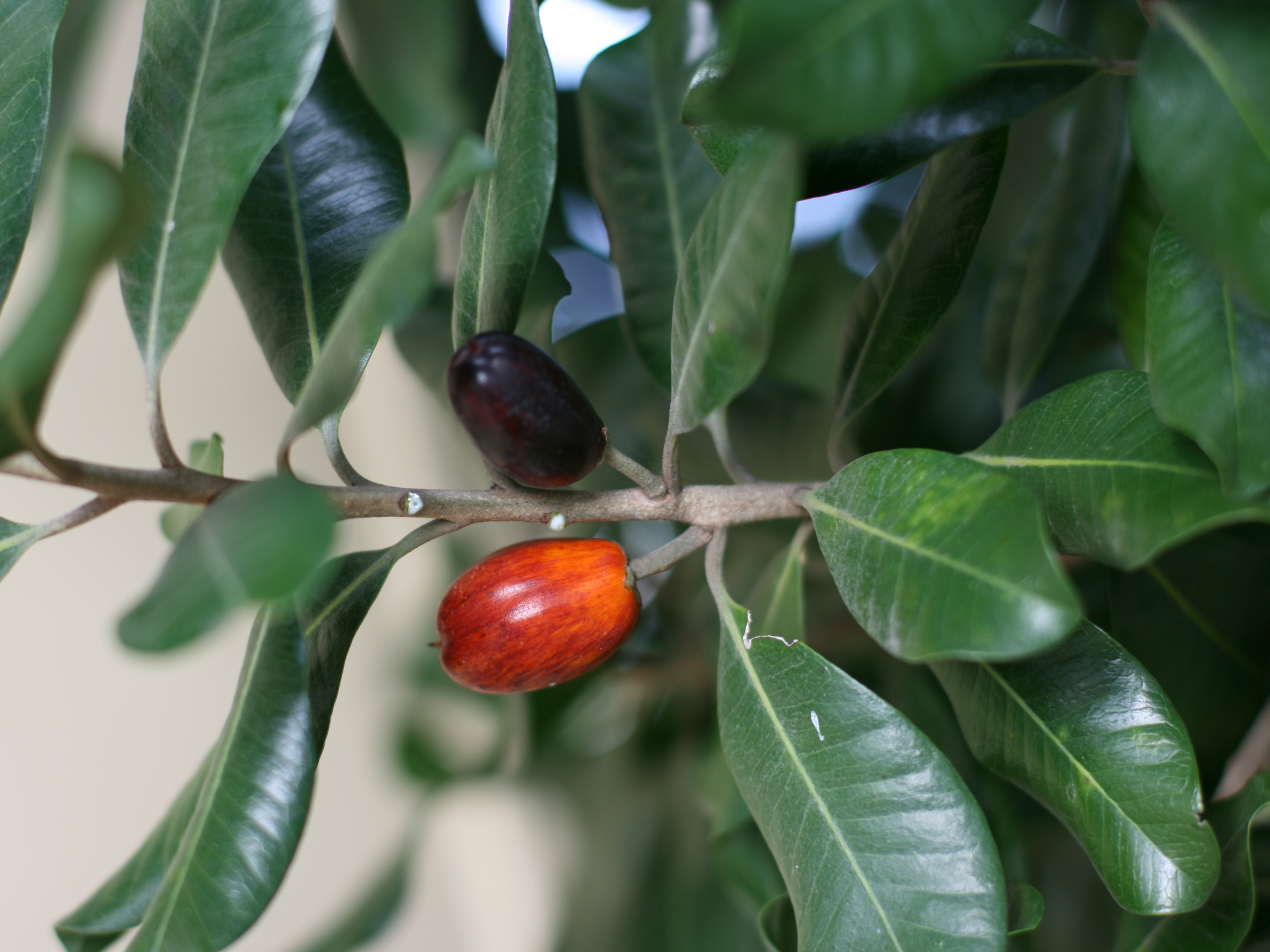 fruit and foliage of Pouteria costata, Tawāpou or Bastard Ironwood. Auckland, New Zealand